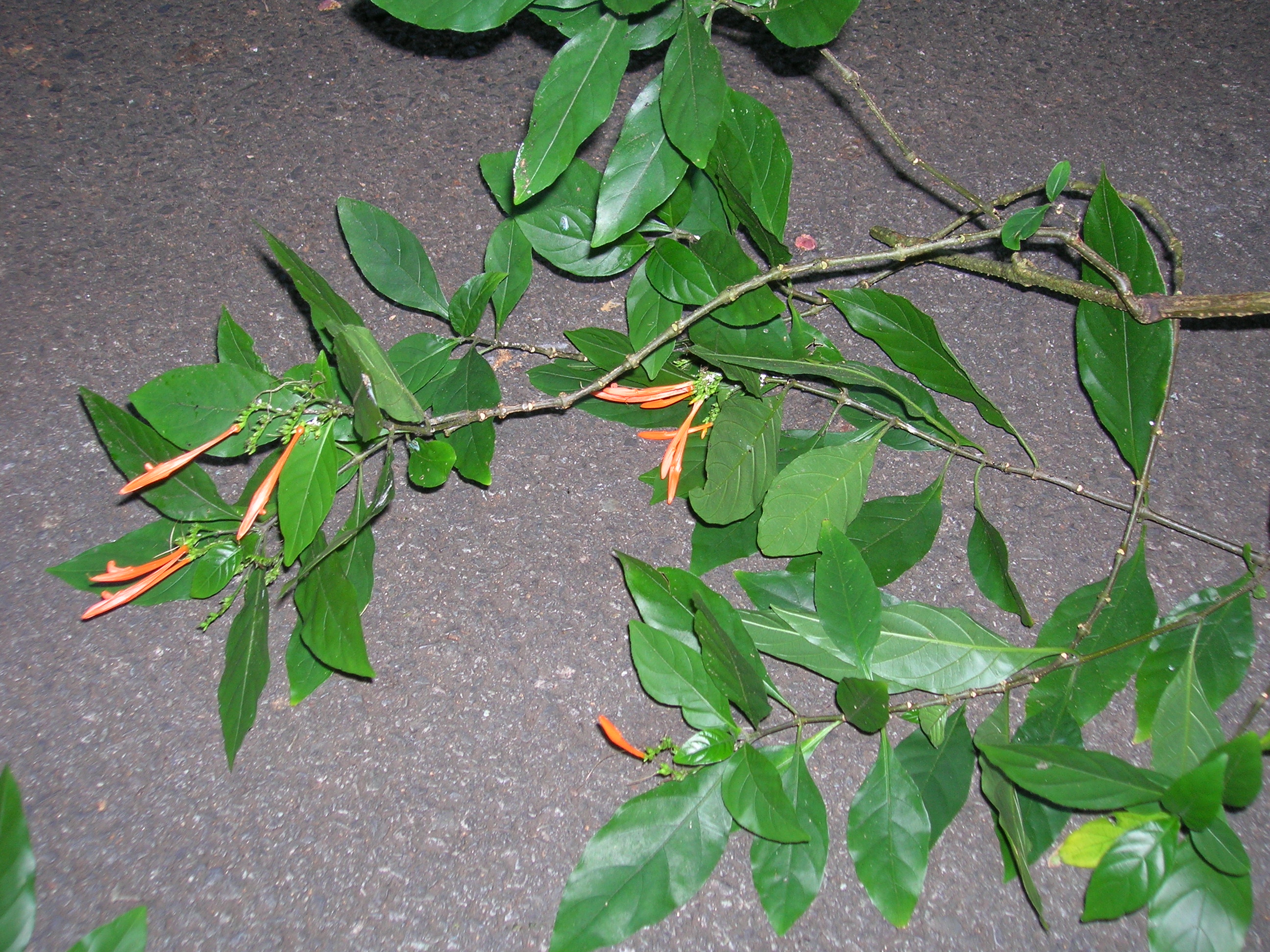 Justicia spicigera (branch and flowers). Location: Oahu, Nuuanu